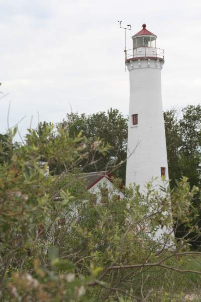 Sturgeon Point Lighthouse, Alcona County, Michigan, USA, by the shores of Lake Huron.